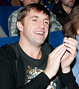 Russian actor Vladimir Vdovichenkov. At the «Brest Fortress» premiere in Moscow, November 3, 2010.